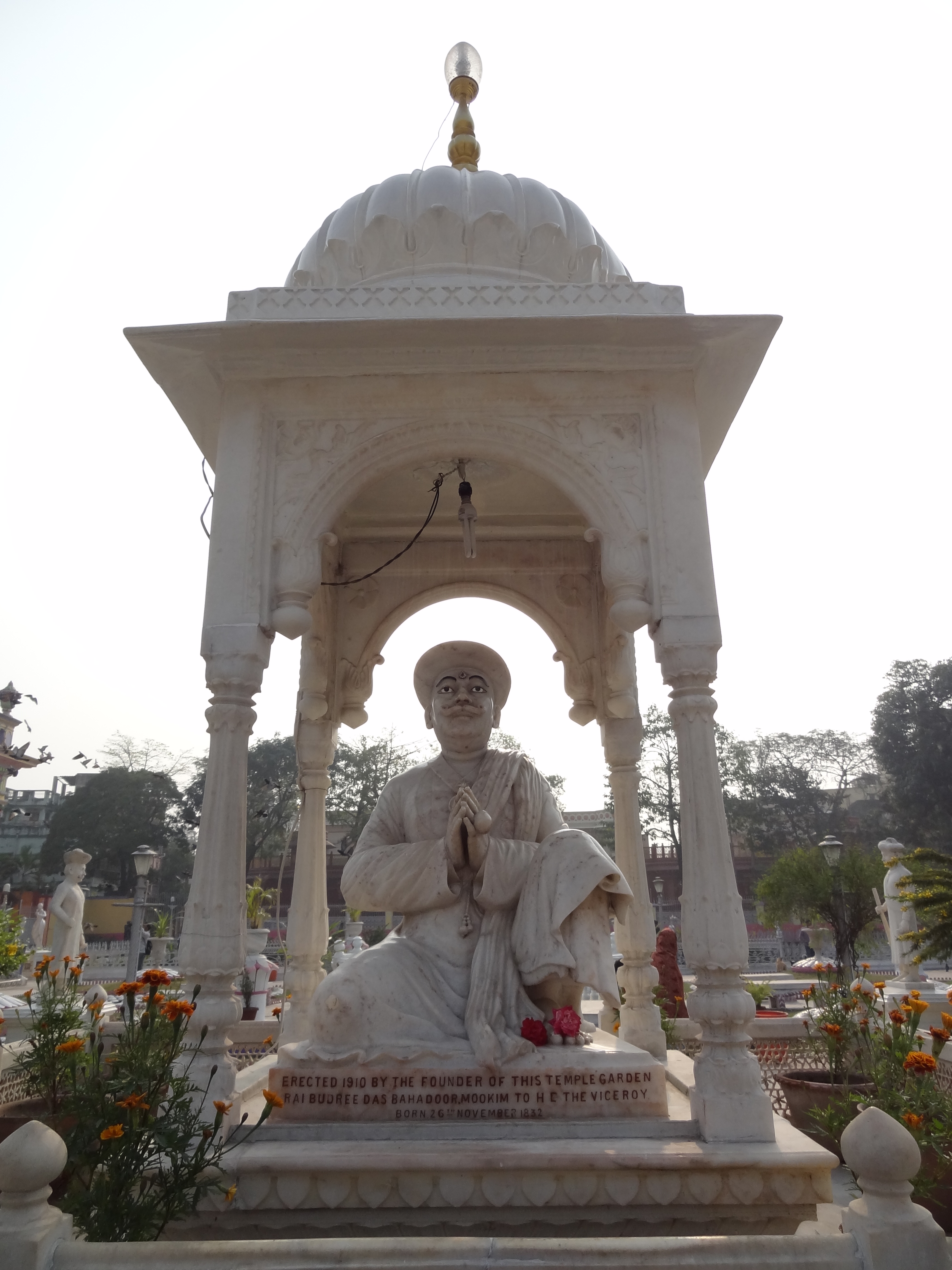 A Marwari Shrimal Jain, Seth Badridas was responsible for the construction of the Jain Temple on Badridas Temple Street, in 1867